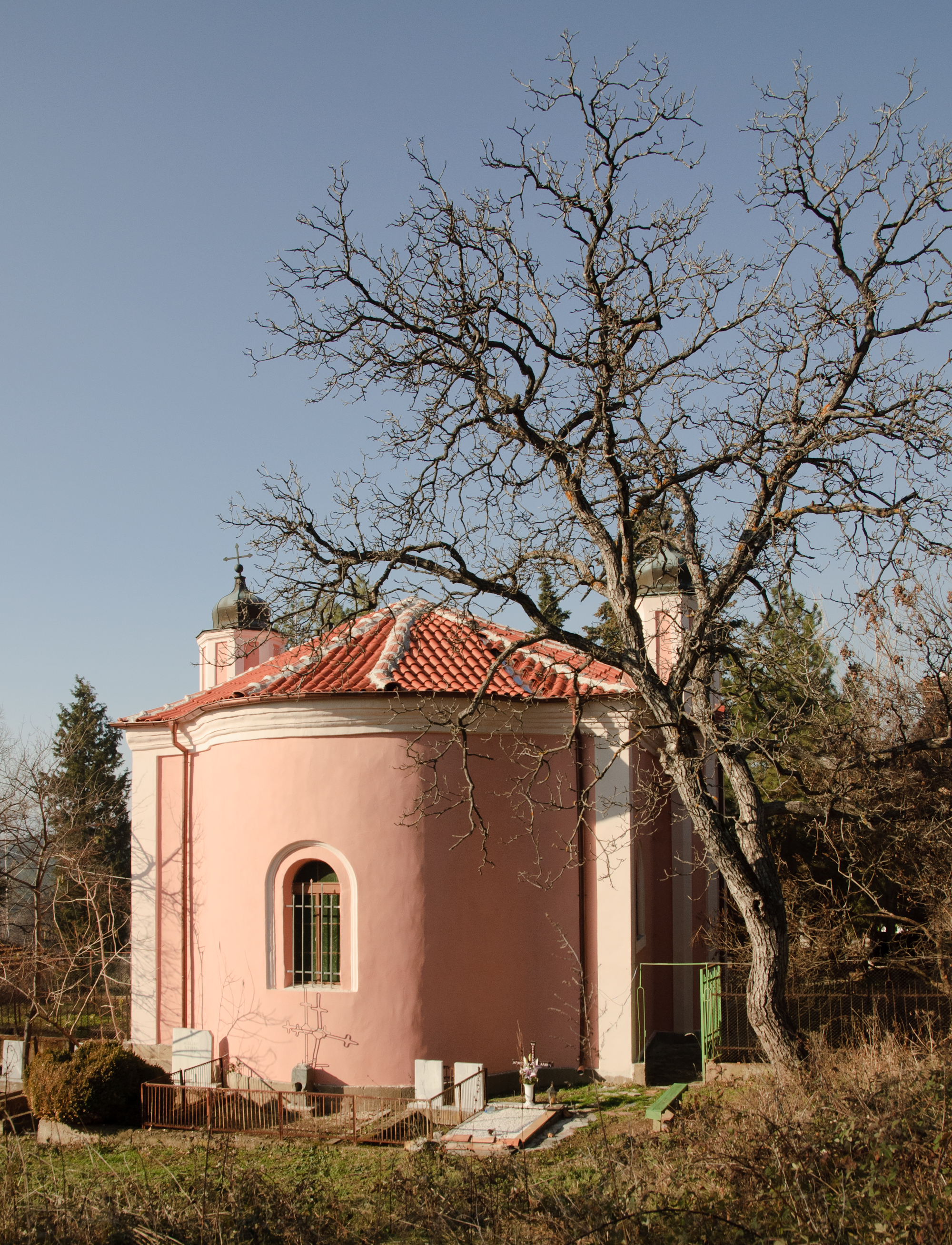 The apse of the Church of the Ascension at Sopot monastery, Bulgaria.